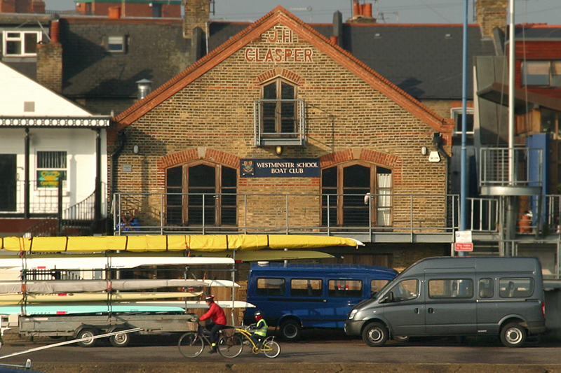 Westminster School Boat Club early morning